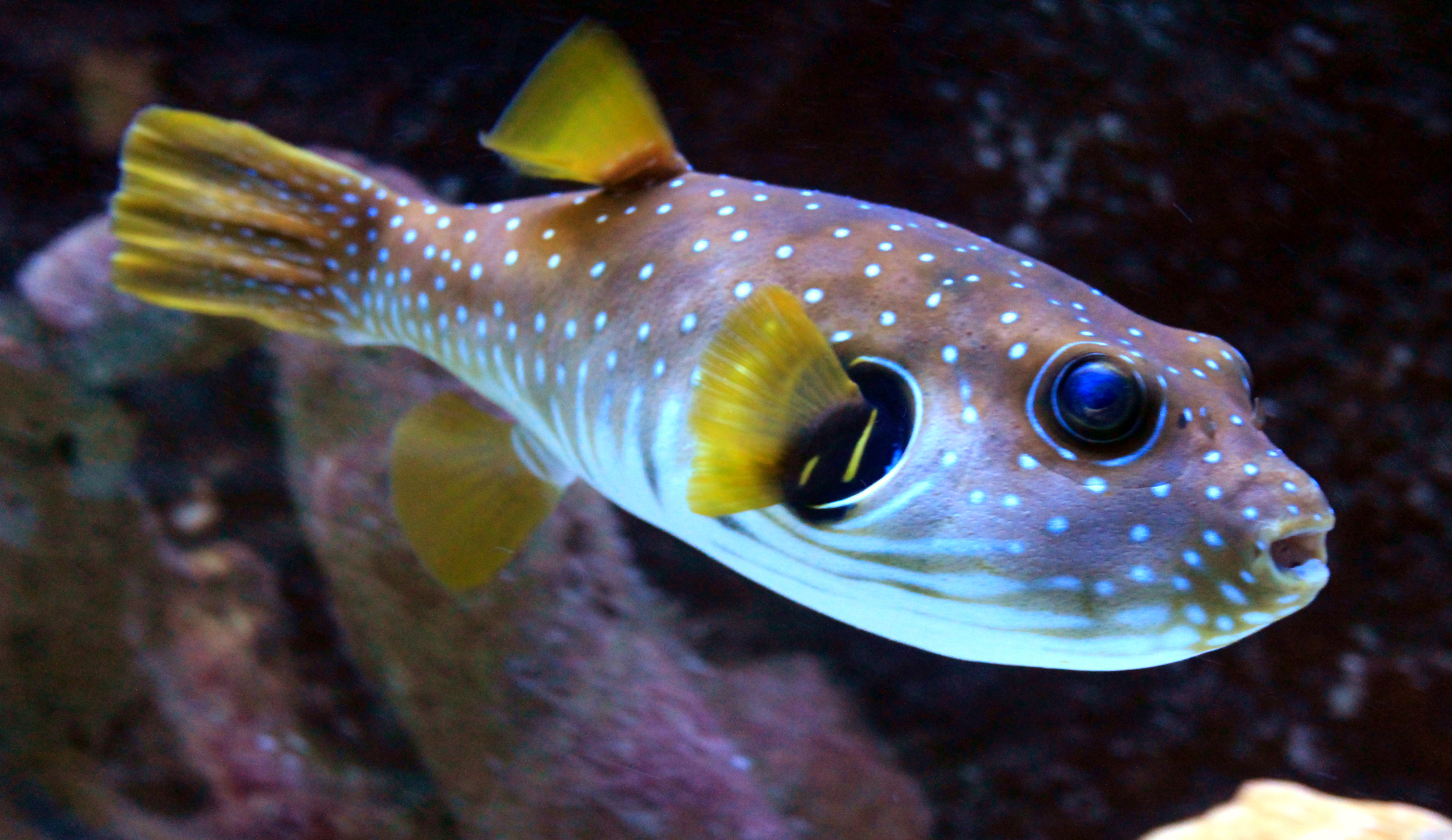 Fish White-spotted puffer, Arothron hispidus, Prague sea aquarium, Czech Republic